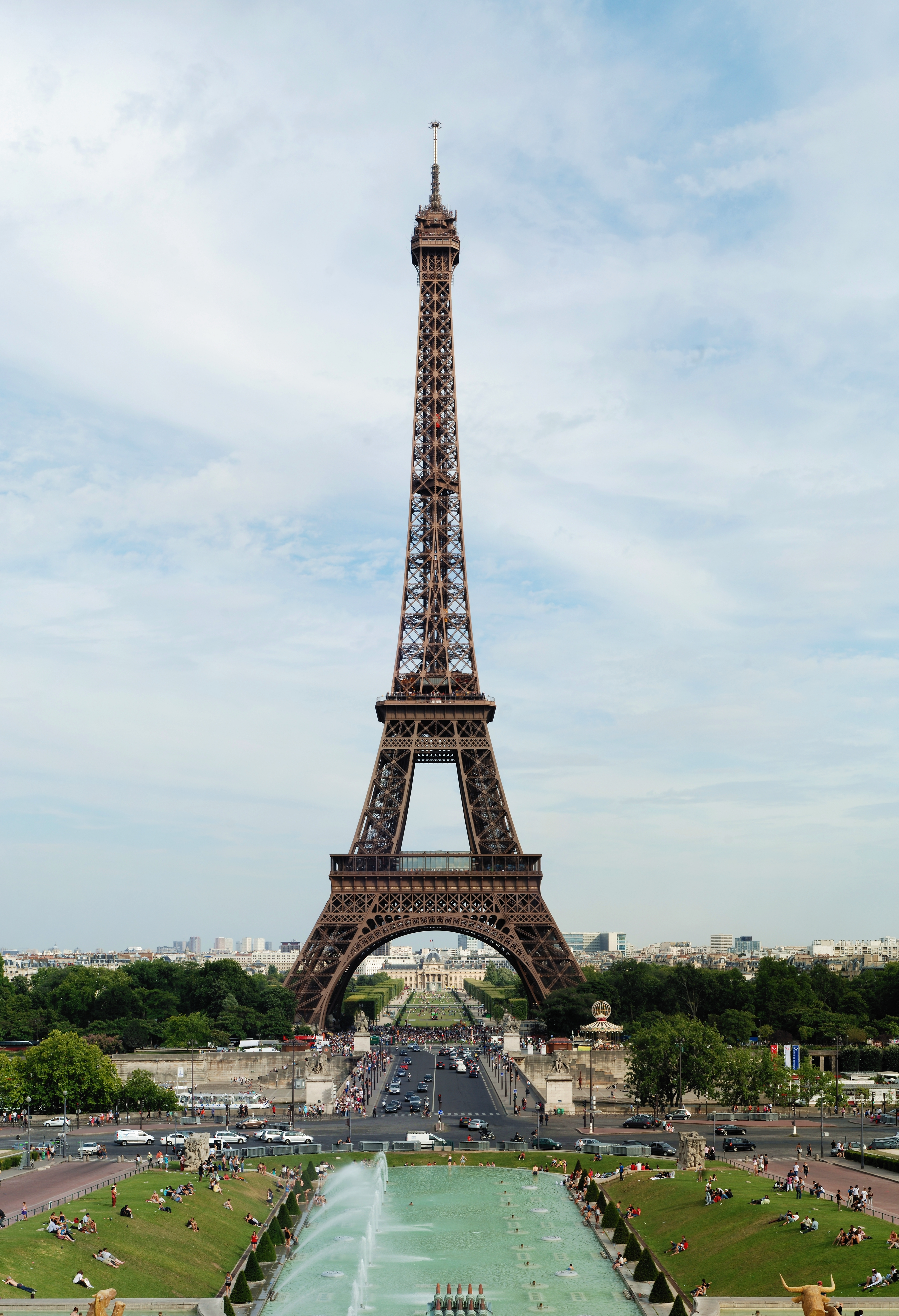 The Tour Eiffel, view from the Trocadero